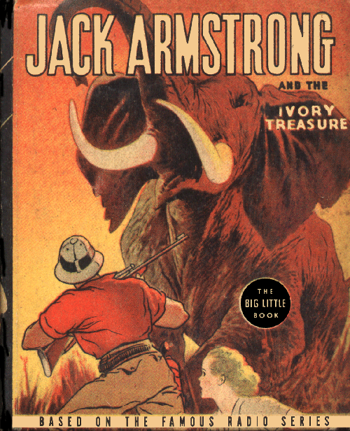 Copy of the front cover of the Big Little Book Jack Armstrong and the Ivory Treasure. Since General Mills' Wheaties brand was the sponsor of Jack Armstrong, it appears that this Big Little Book was specially prepared as a radio premium for the company.